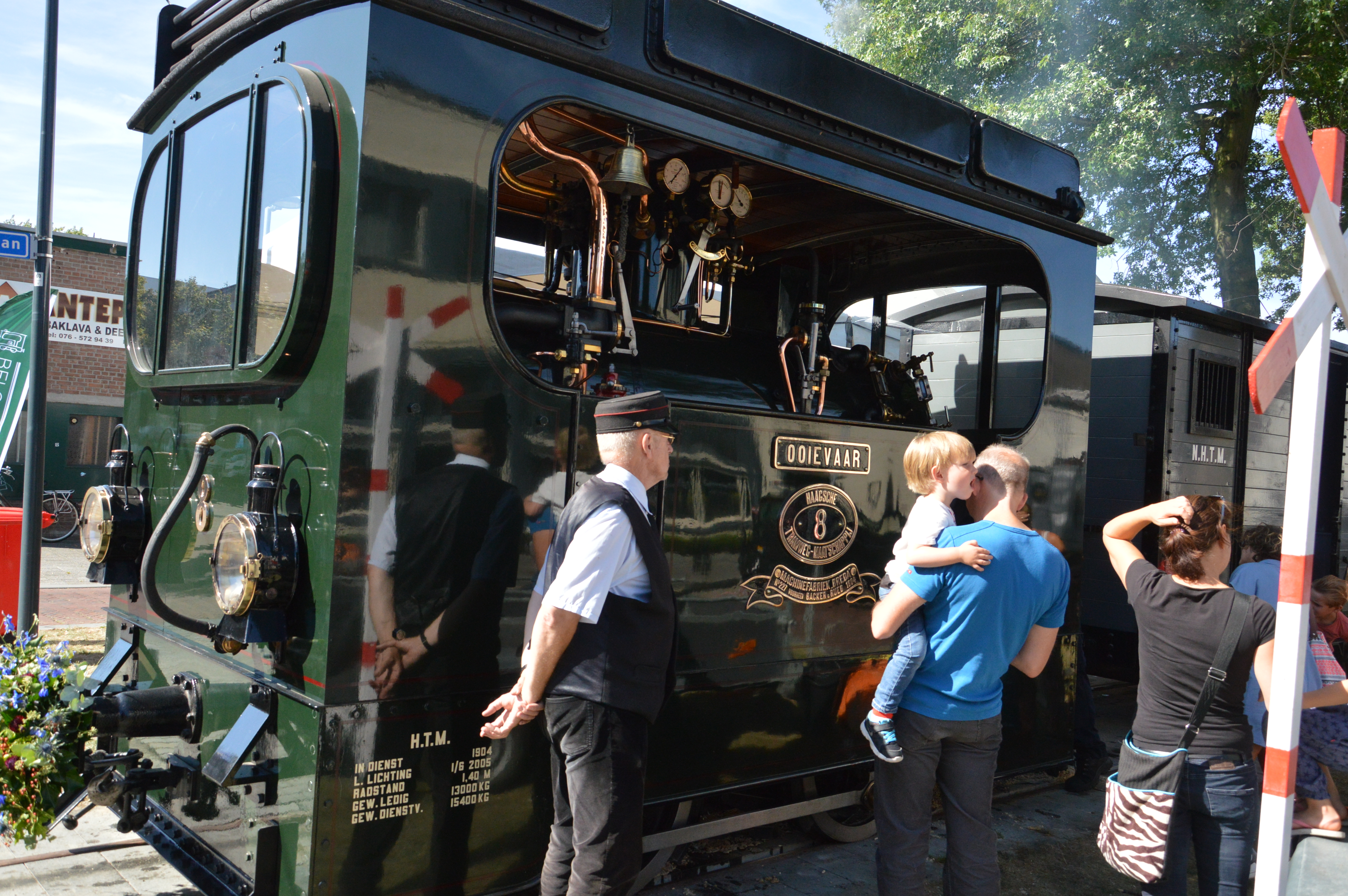 Train ride with the "Ooievaar" (Stork), on the occasion of the opening of the new station of Breda, the Netherlands.